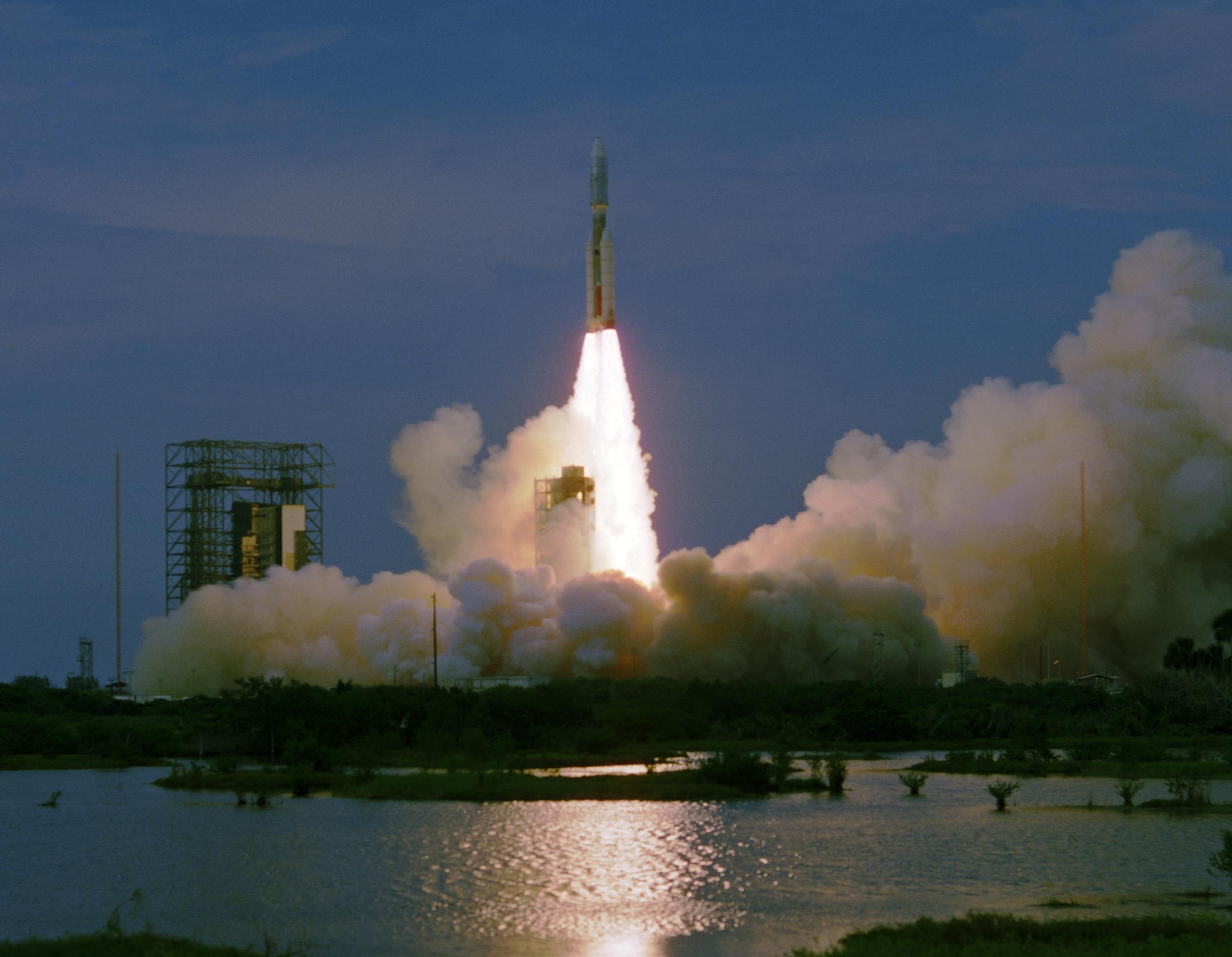 Launch of the Mars mission Viking I payload on Titan III Centaur rocket, August 20, 1975. The cruise phase of the Viking spacecraft lasted 310 days until Mars orbit insertion. The Viking I orbiter high-gain antenna was put into operation November 12, 1975. The high-gain antenna was repositioned daily to keep the radio beams aimed directly at the Earth.